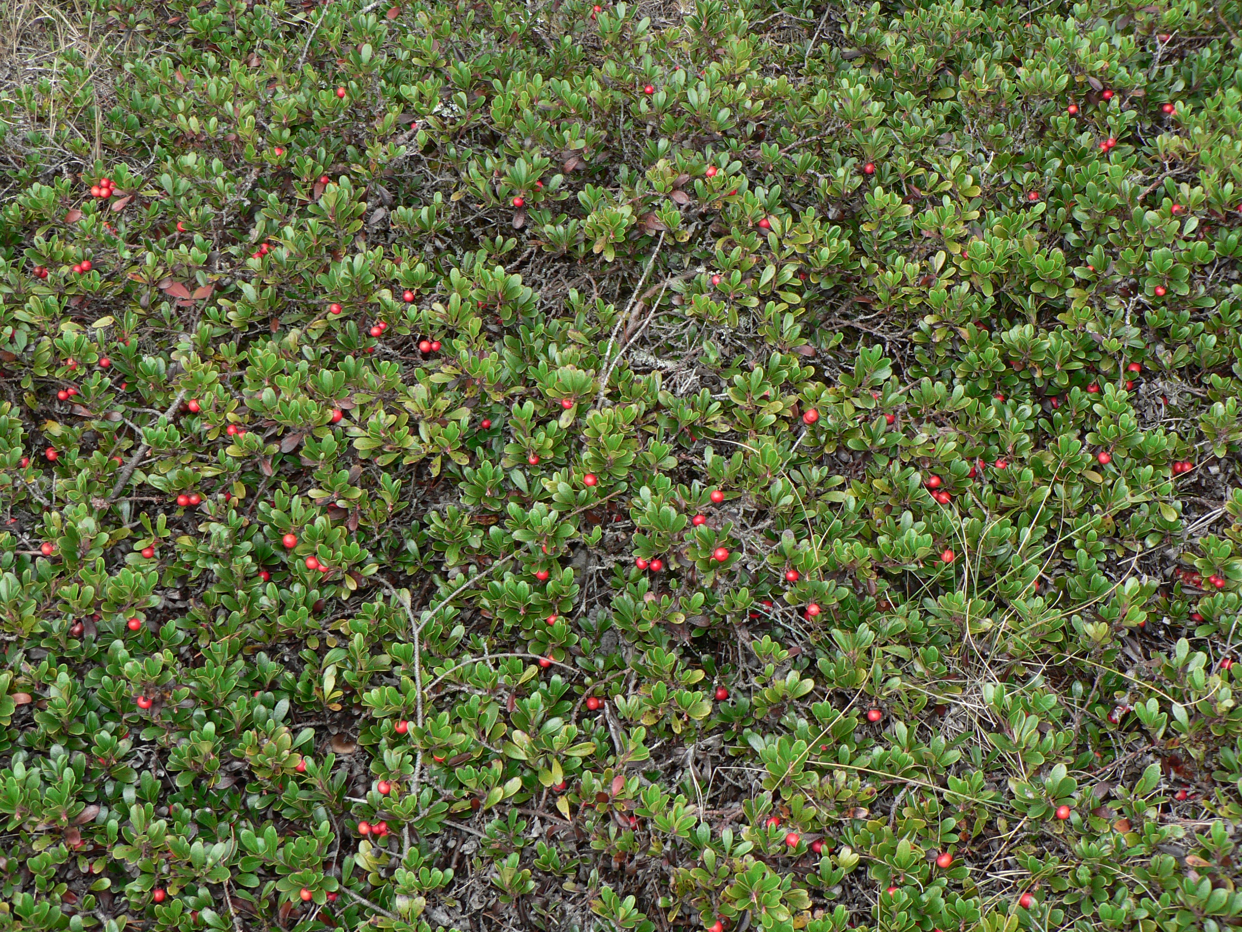 Kinnikinnick